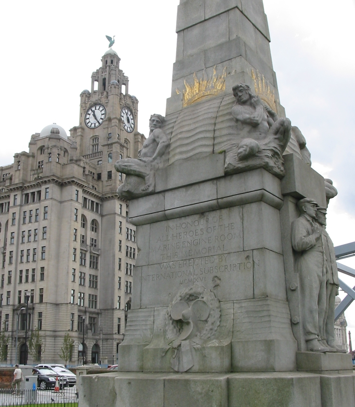 Nrf: Liverpool